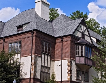 Millar-Ward Alumni House, Emory University